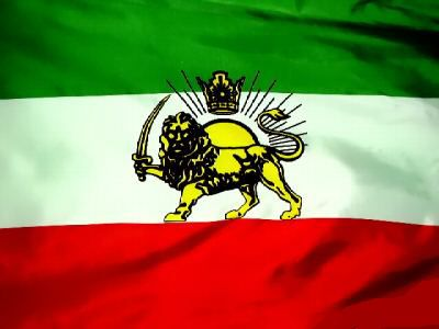 Pahlavi Flag bearing the lion and sun motif and Pahlavi Crown.jpg